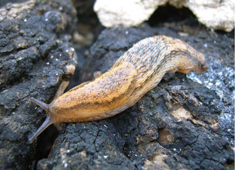 Arion ponsi Quintana Cardona, 2007 from Menorca (Balearic Islands, Spain).